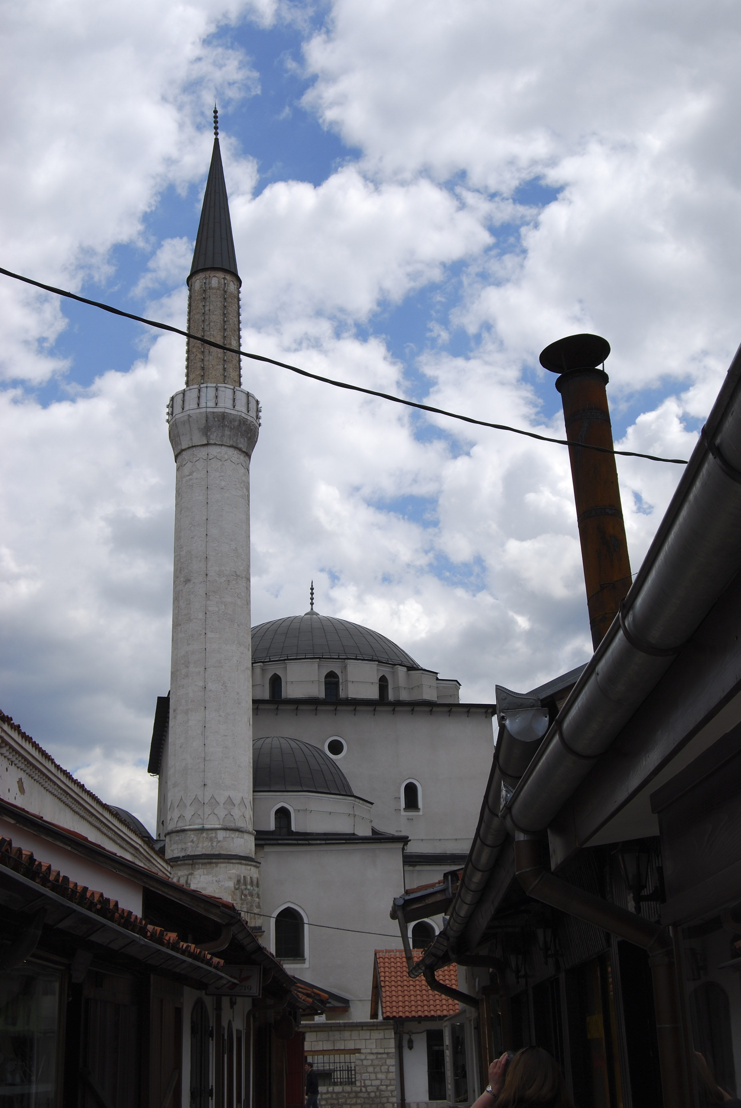 Gazi Husrev-beg's Mosque in Sarajevo, Bosnia and Herzegovina (view from west)